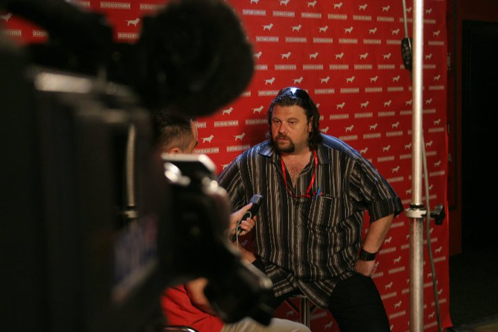 Guest interview at Kratkofil 2007